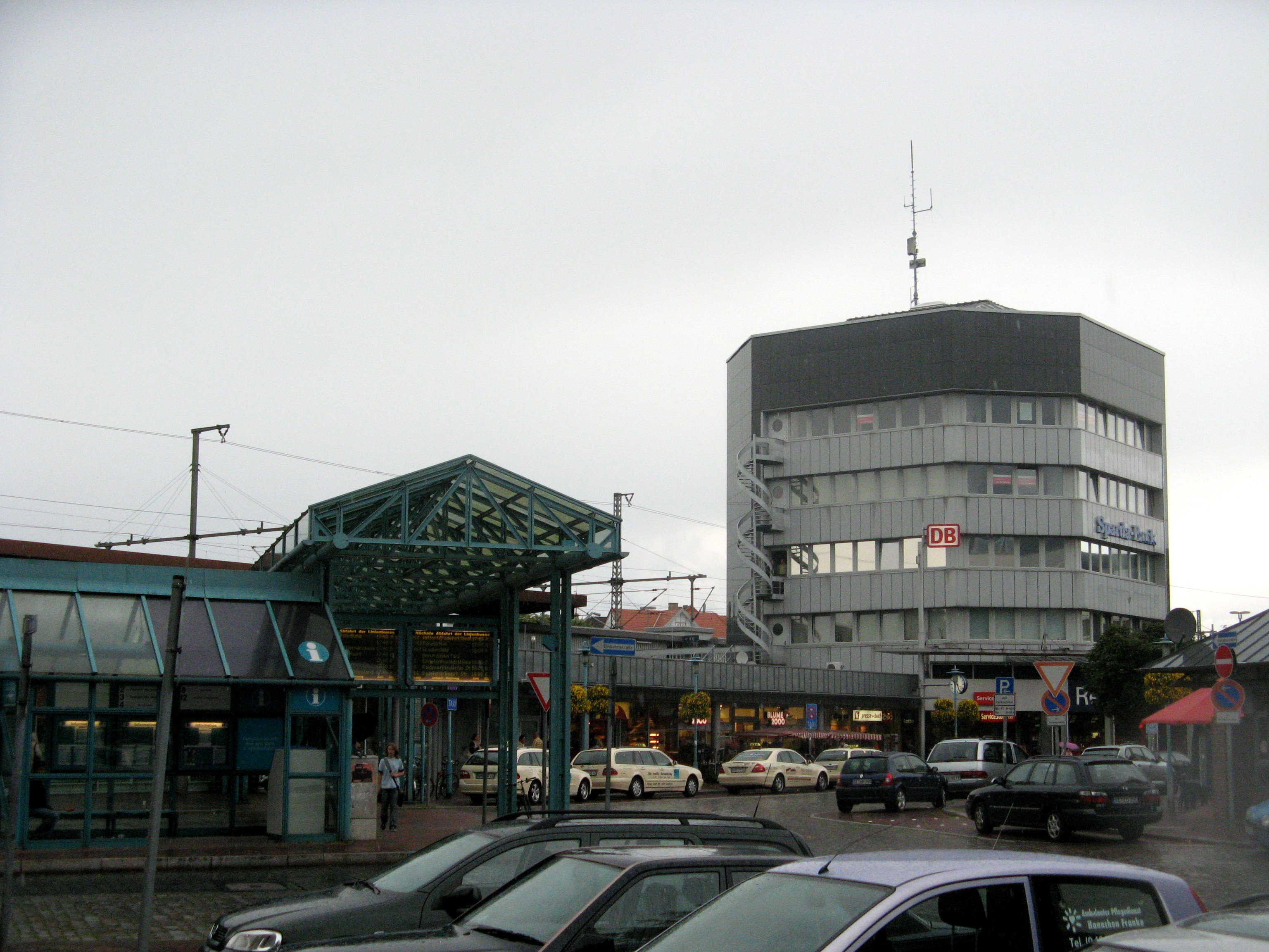 Station building of Neumünster train station